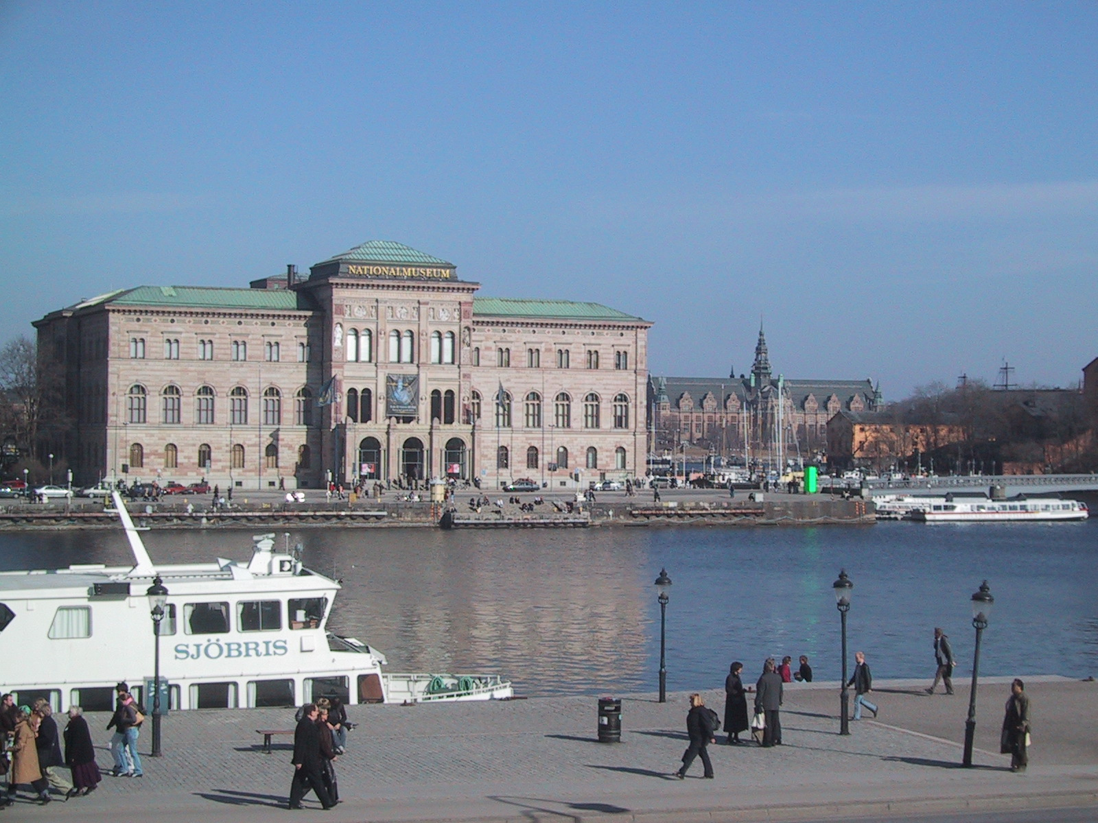 Swedish Nationalmuseum, seen across the water from the Royal Castle in Stockholm. From left to right are (1) Nationalmuseum, (2) Nordiska museet, (3) the bridge to island Skeppsholmen.